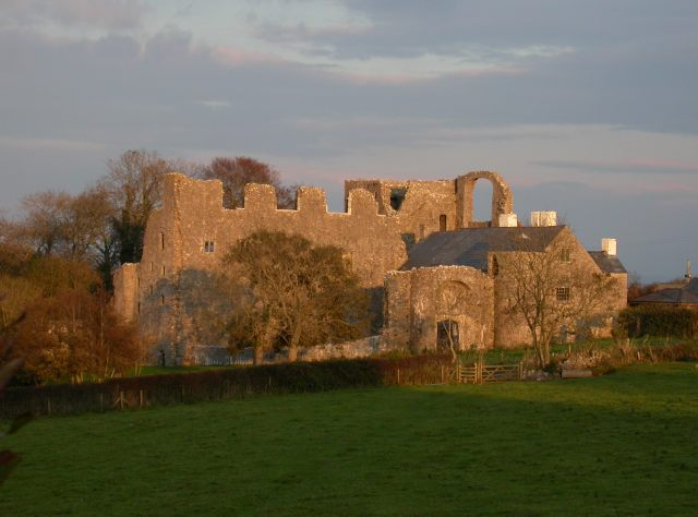 Oxwich Castle in setting sun